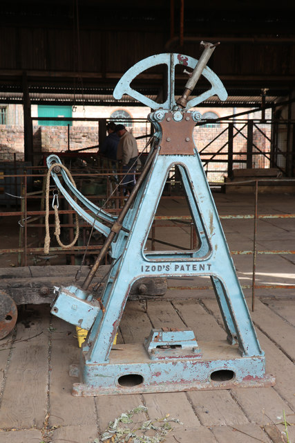 Blists Hill Victorian Town - Izod impact tester: Izod impact testing is an ASTM standard method of determining the impact resistance of materials. A device for testing the impact resistance of materials. This seems to have appeared in the ironworks area. There is, however, no interpretation of this exhibit.